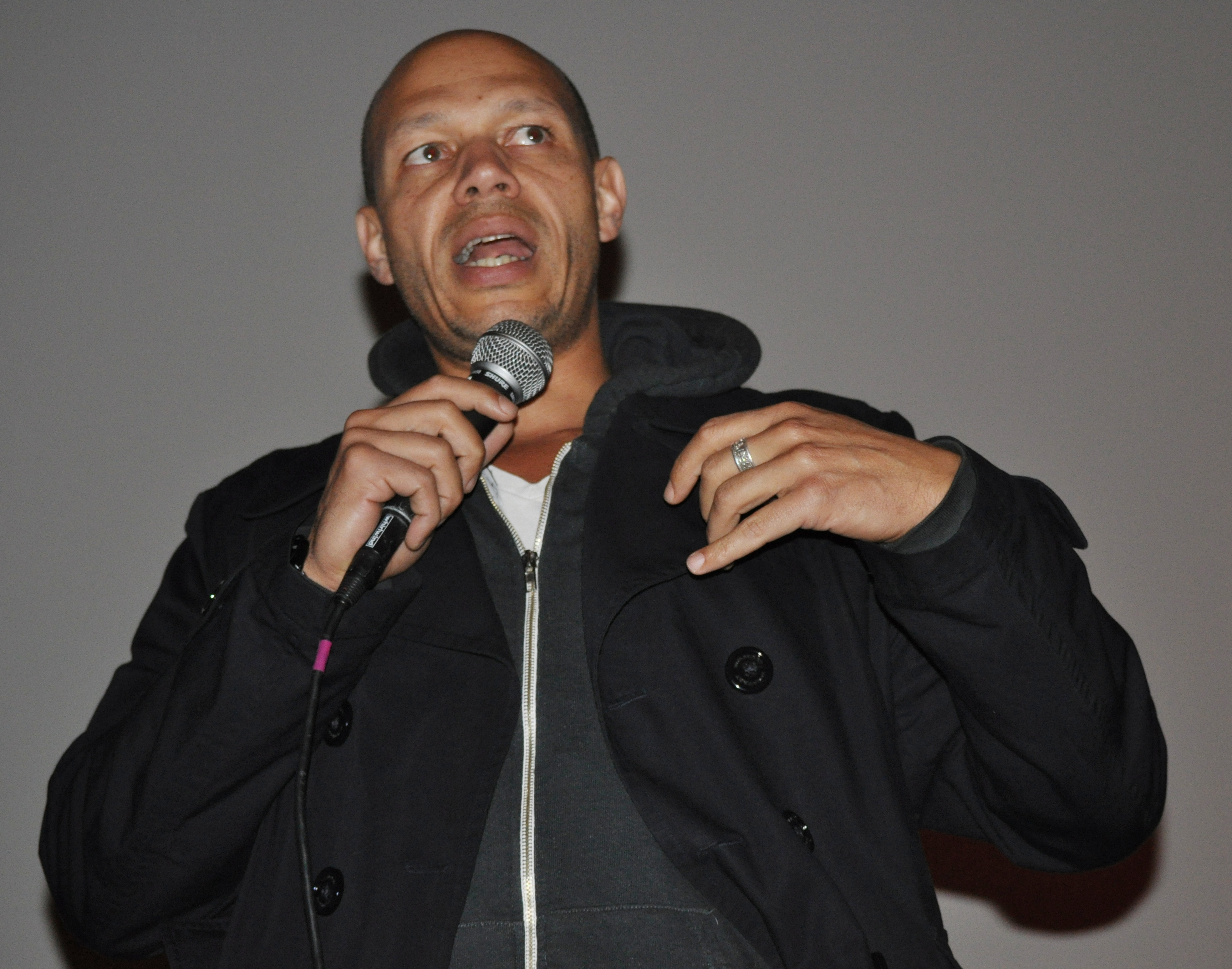 Swiss-born actor and director Jarreth Merz speaking at the Seattle International Film Festival, Seattle, Washington.